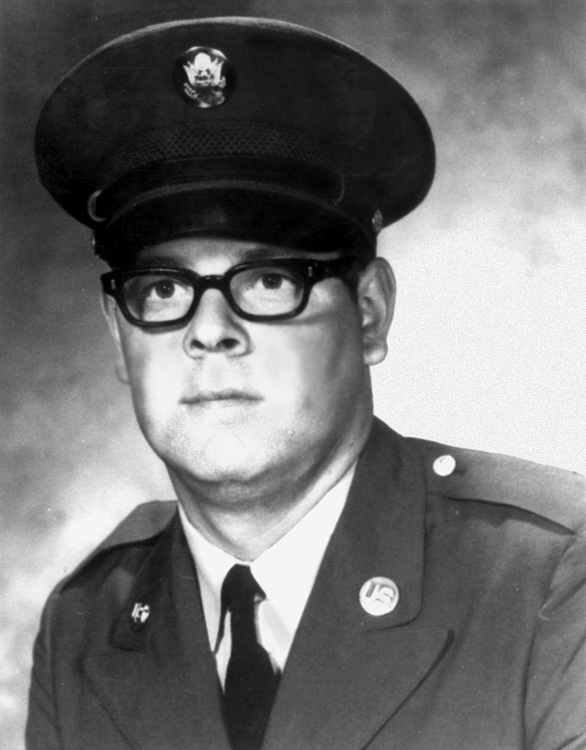 Specialist Four Larry G. Dahl, United States Army, posthumous Medal of Honor recipient in the Vietnam War